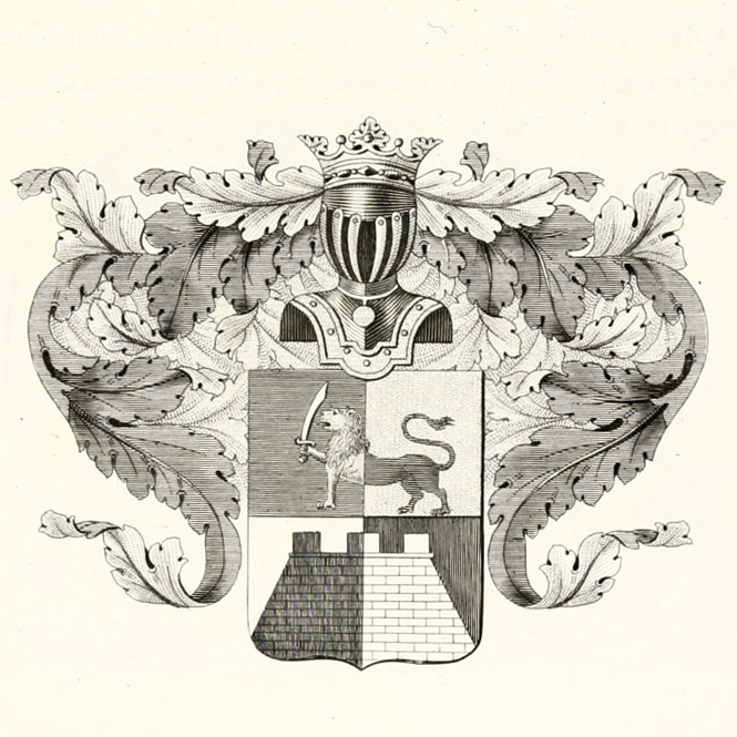 Coat of arms of the House of Kolemin